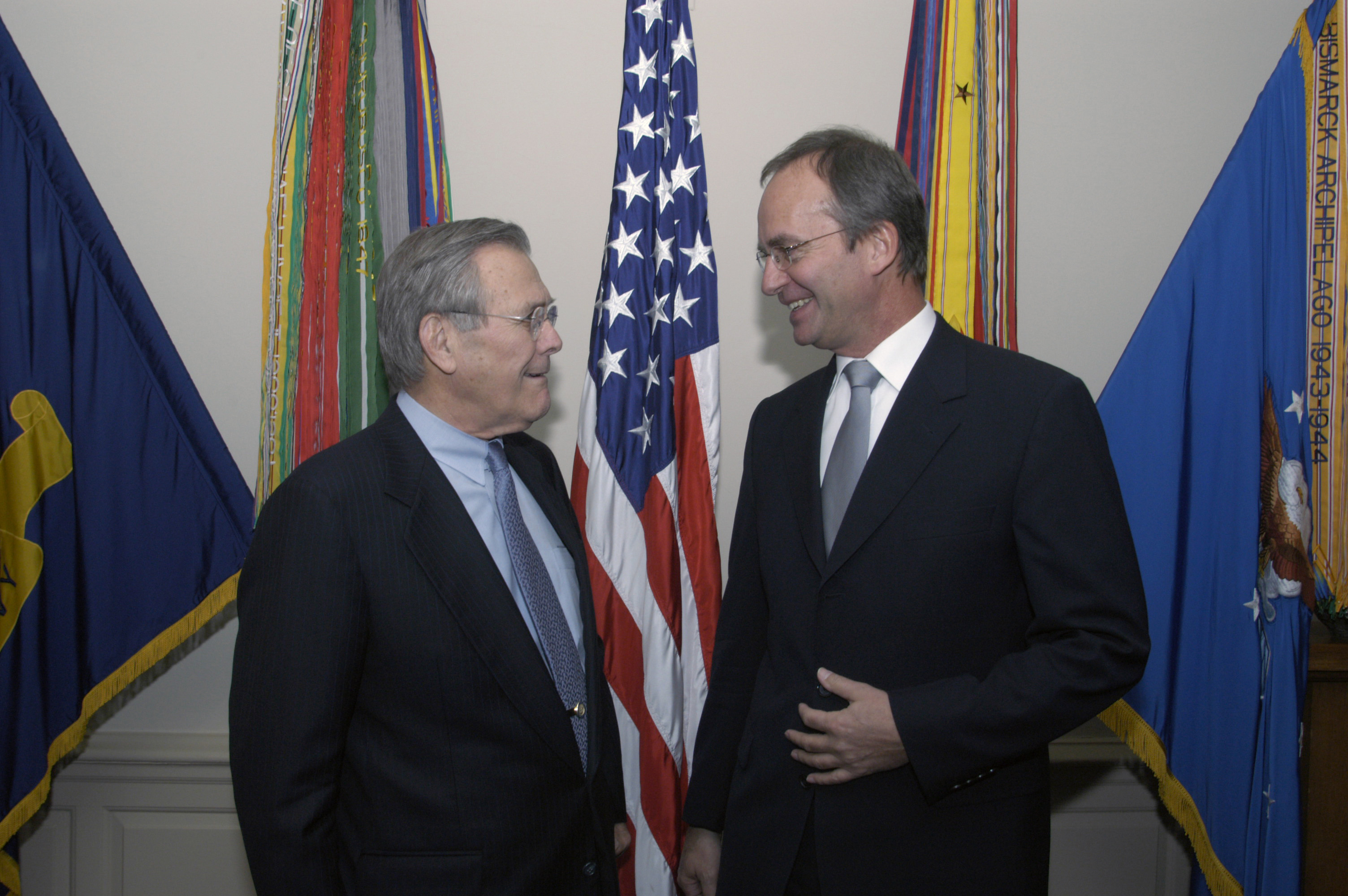 Secretary of Defense Donald H. Rumsfeld and Minister of Defense Henk Kamp of the Netherlands chat as they arrive inside the Pentagon on March 17, 2004. The two leaders are meeting to discuss defense issues of mutual interest. DoD photo by Helene C. Stikkel.